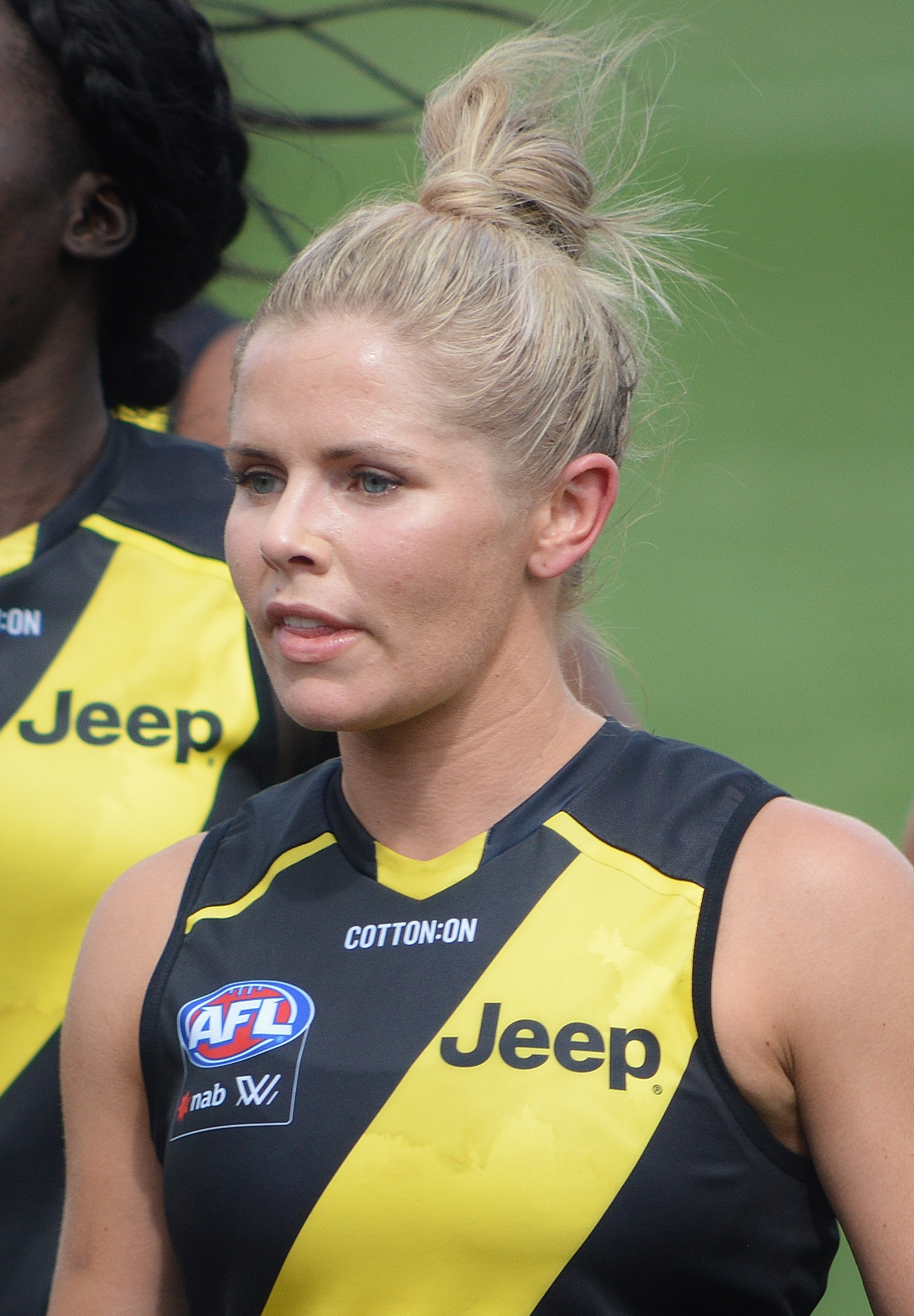 Alana Woodward with Richmond during the round 3, 2020 AFL Women's match against North Melbourne at Ikon Park.